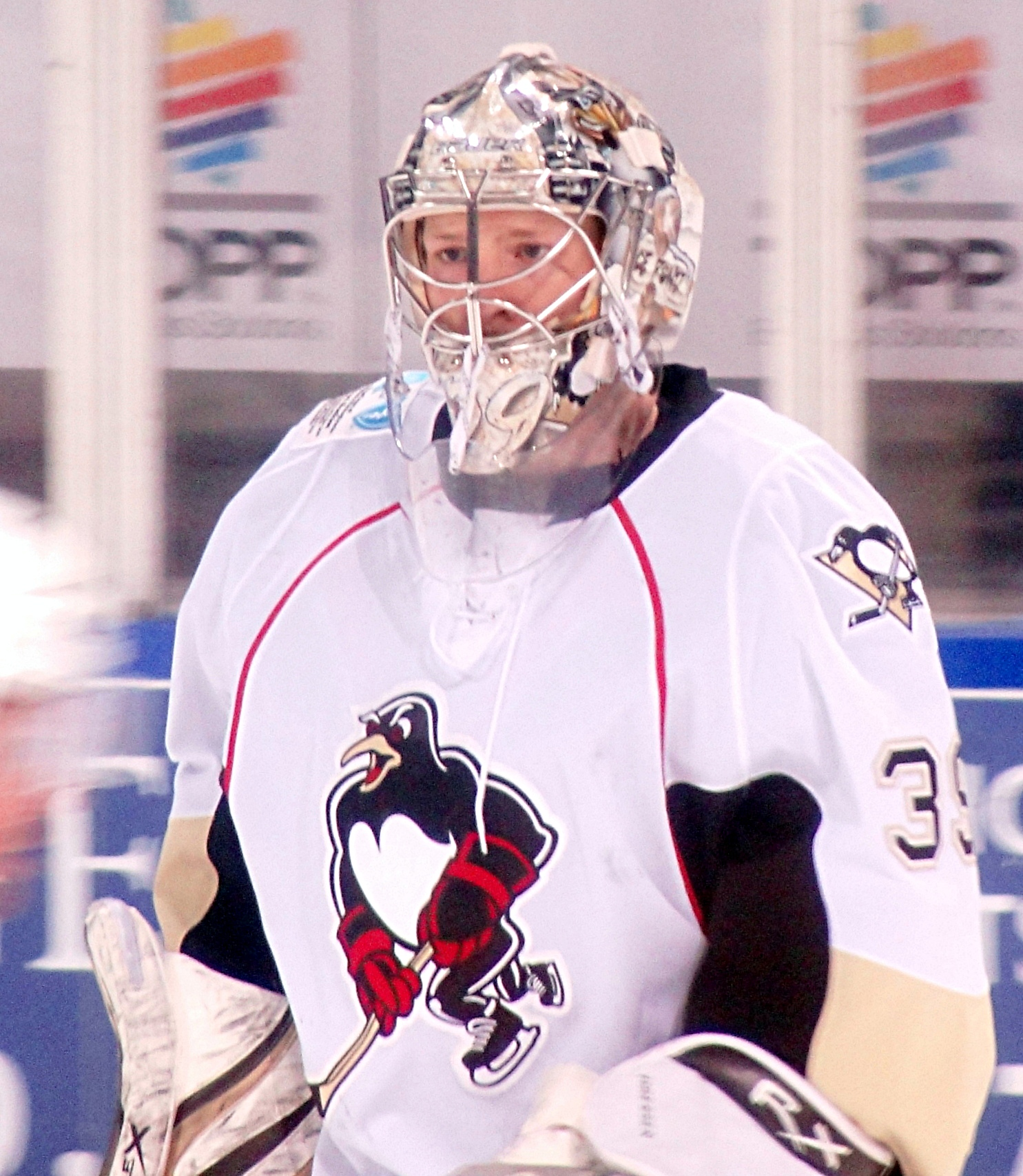 Wilkes-Barre/Scranton Penguins goaltender Brad Thiessen during a AHL Calder Cup Playoffs second round game against the St. John's IceCaps, May 5, 2012 at Mohegan Sun Arena at Casey Plaze in Wilkes-Barre, PA.